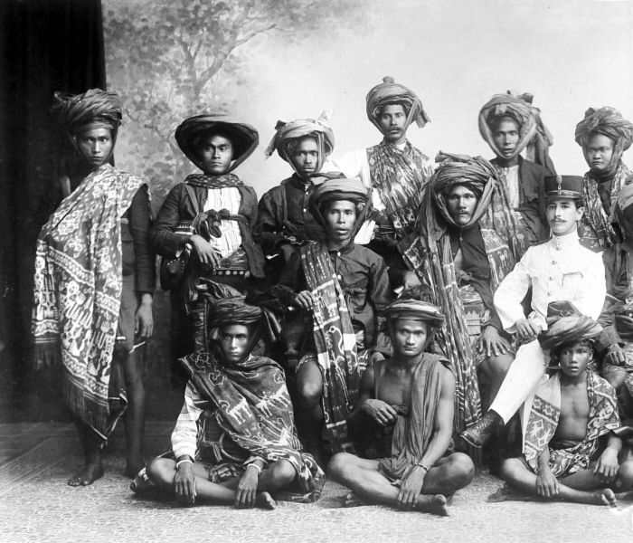 Headmen from Sumba with a Dutch civil servant